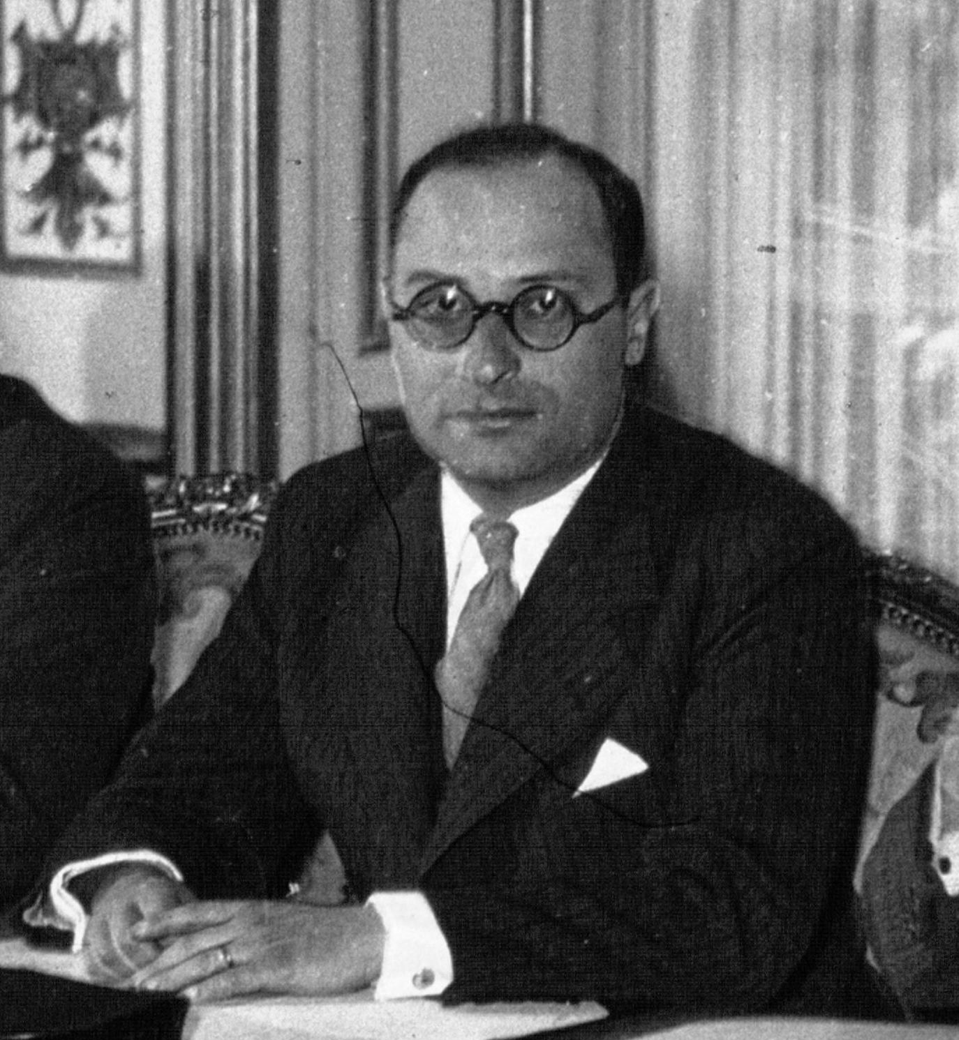 Jean Zay